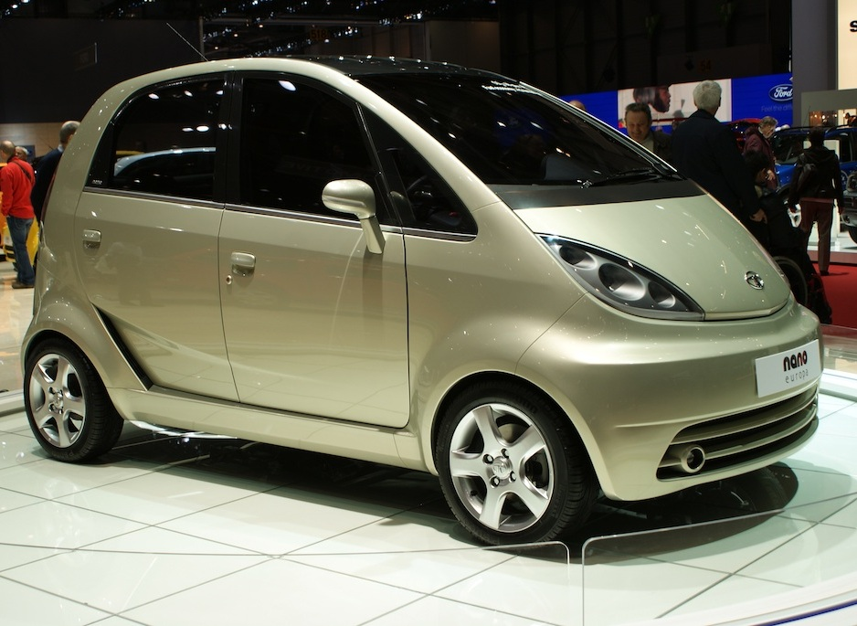 Tata Nano Europa displayed at Geneva Motor Show, 2009